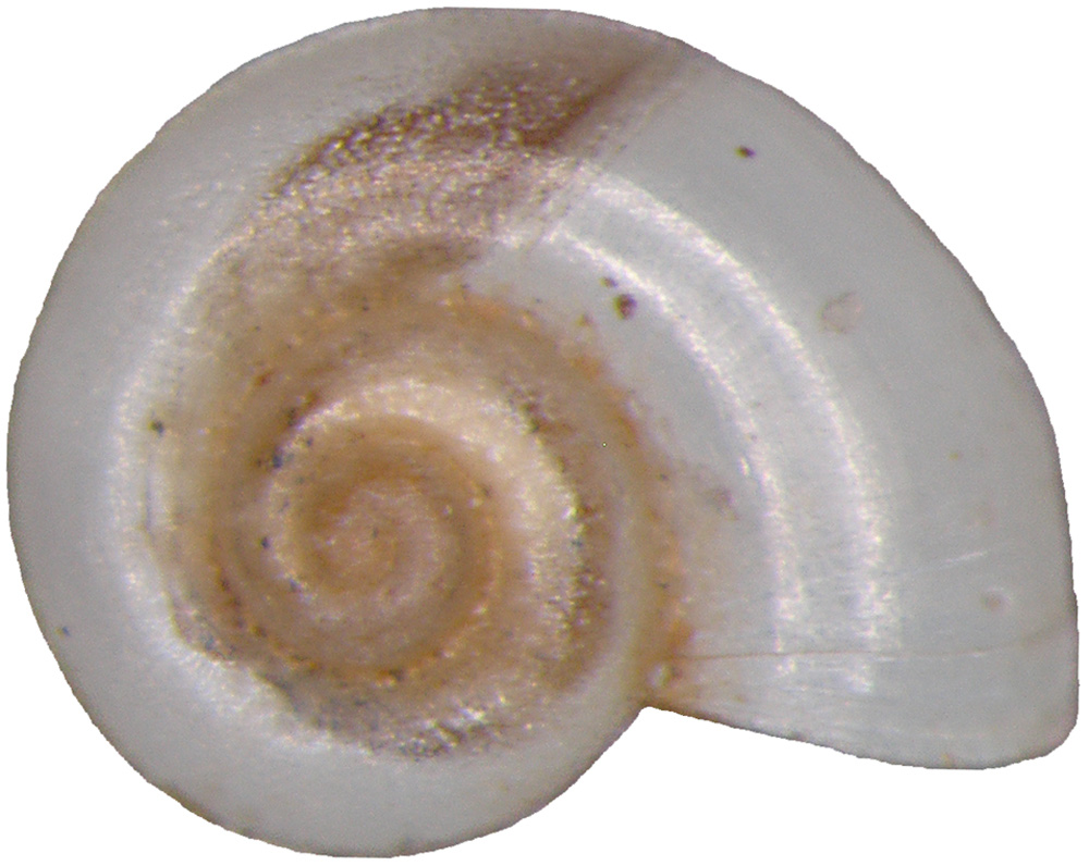 Photo of apical view of a shell of Hauffenia sp. from Slovakia.